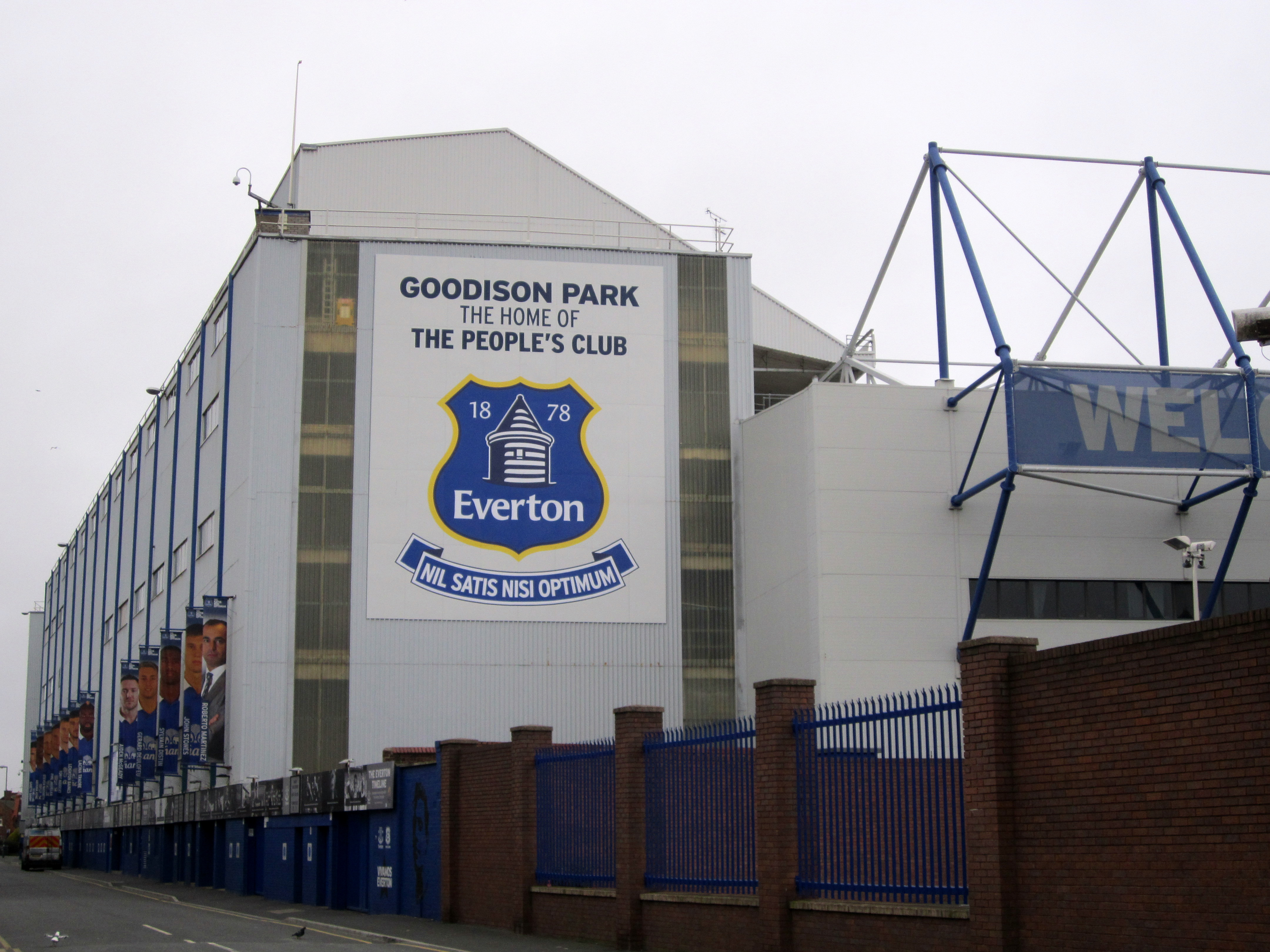 View of Goodison Park, Liverpool.